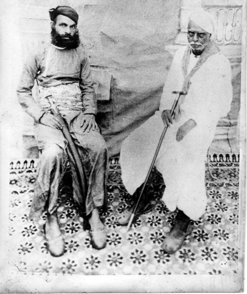 A photograph of Bavji Chatur Singhji, left, with his Guru Thakur Gumaan Singhji (c. 1913)